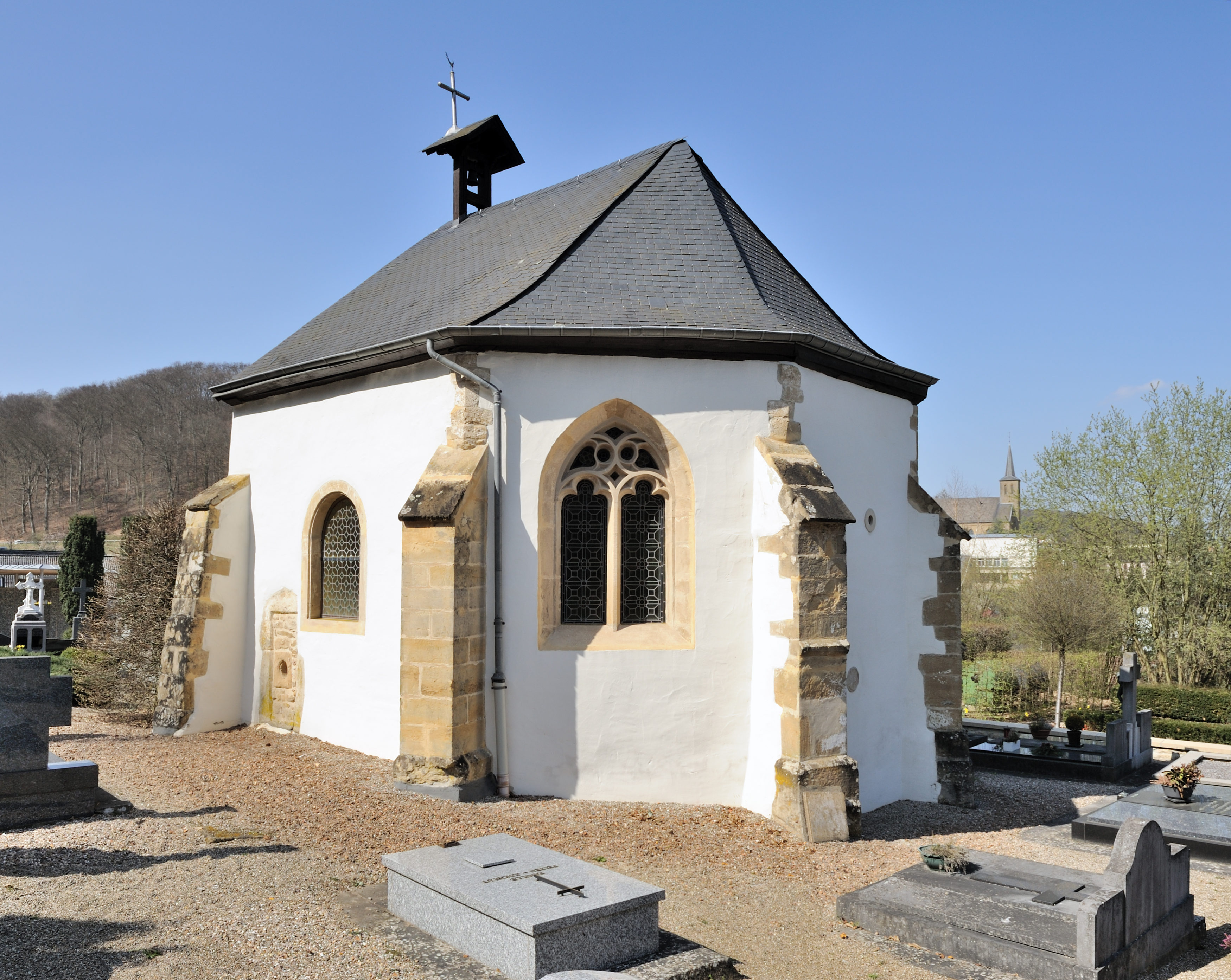 Luxembourg, Hostert/Niederanven: cemetery chapel, listed as National Monument since 27 December 1976.